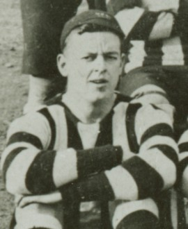 Photograph of Frank Wilcher in 1908.